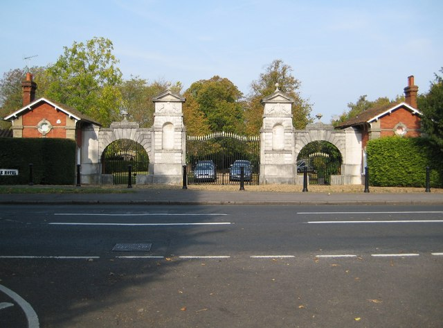 Lodges and entrance gates to Oatlands Park Hotel, Weybridge